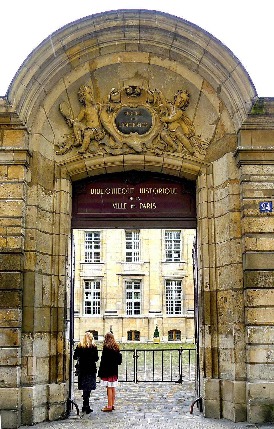 Pavée street (n°24) - Paris